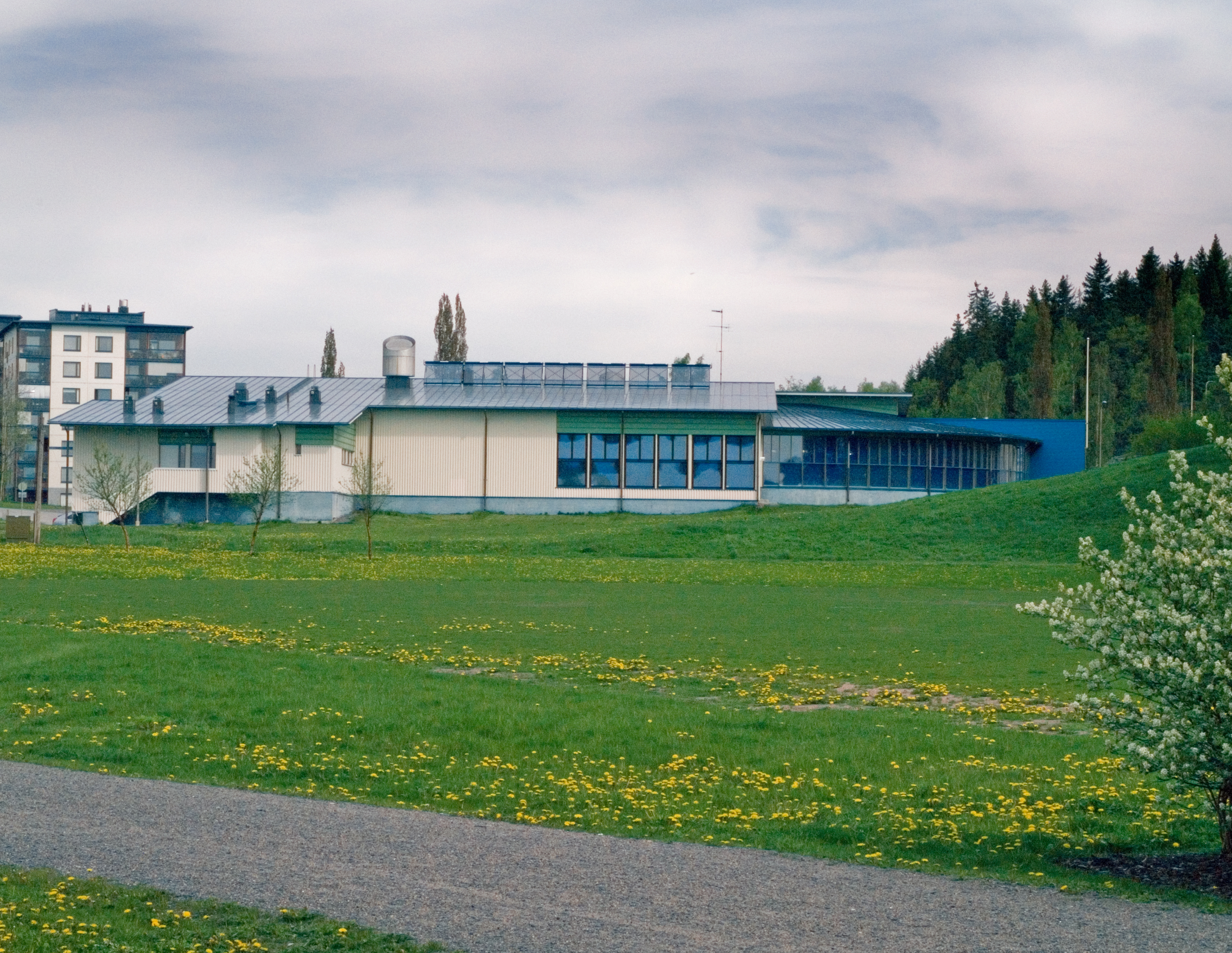 Indoor swimming pool in Hovirinta, Kaarina, Finland, seen from the south. May 2014.